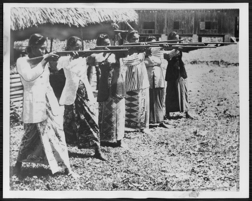 Women with Weapons Pahang, Malaya: Taking a firm stand against the Communist Terrorists, Women of Malaya have undertaken rifle training to protect themselves while members of the Kuala Lumpur Home Guard were away. Shown above are female members of one of the 300 units in the state, and the number of recruits is expected to rise, now that tradition has been broken.